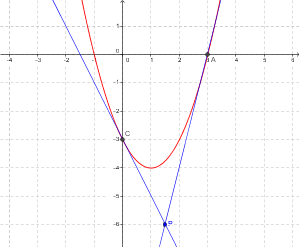 tangent lines to a parabola conducted for any point outside the parabola